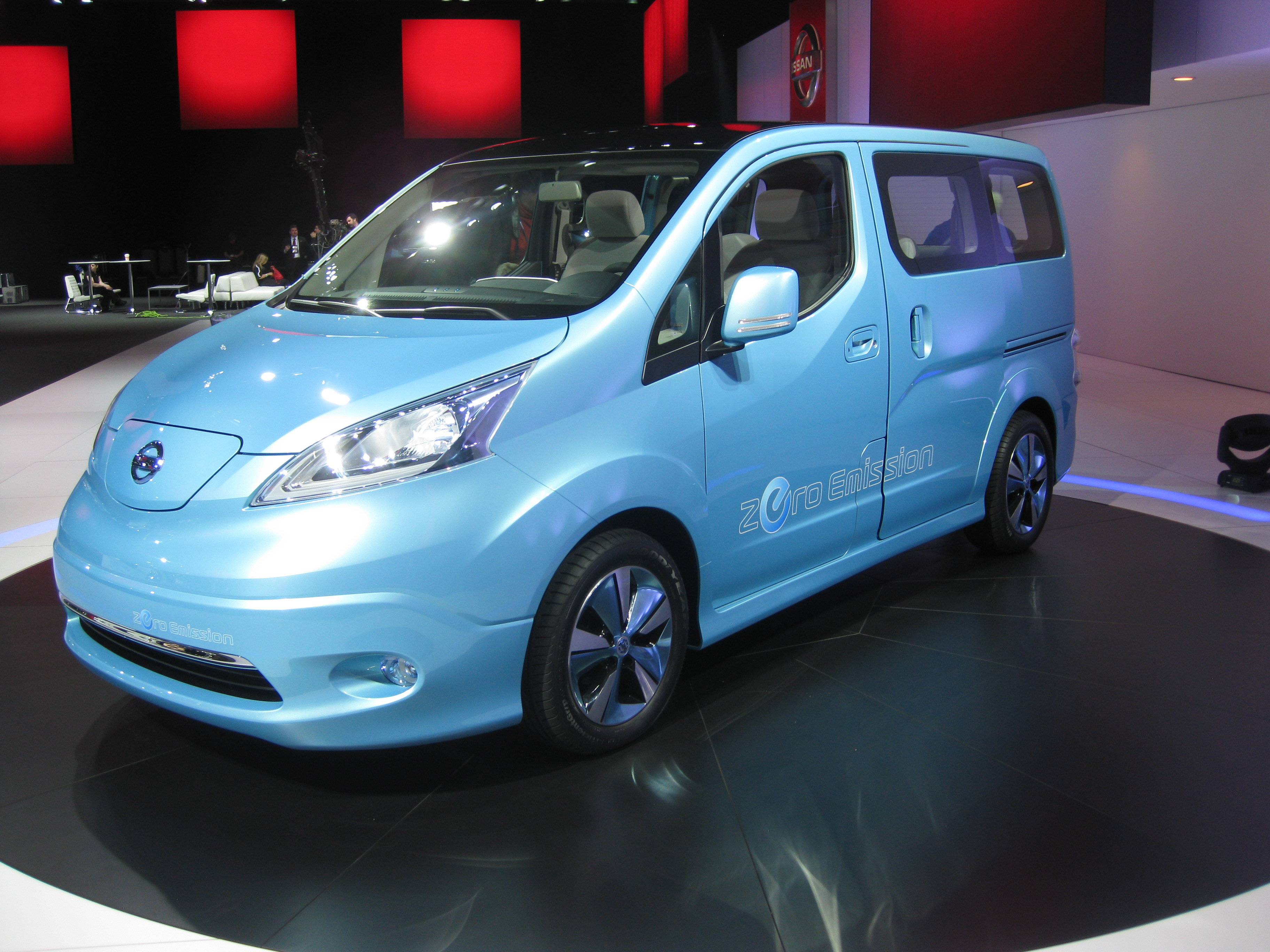 For more info and images please check